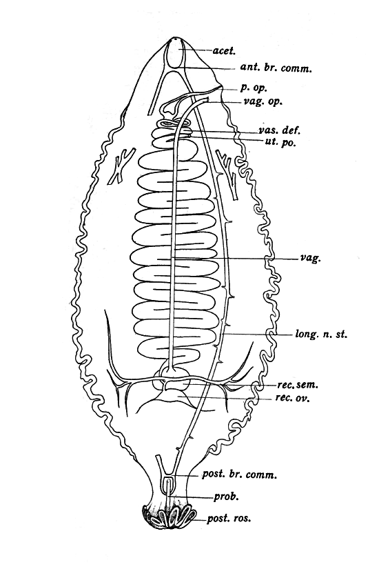 Internal morphology of Gyrocotyle rugosa (Plathelminthes: Gyrocotyloidea).